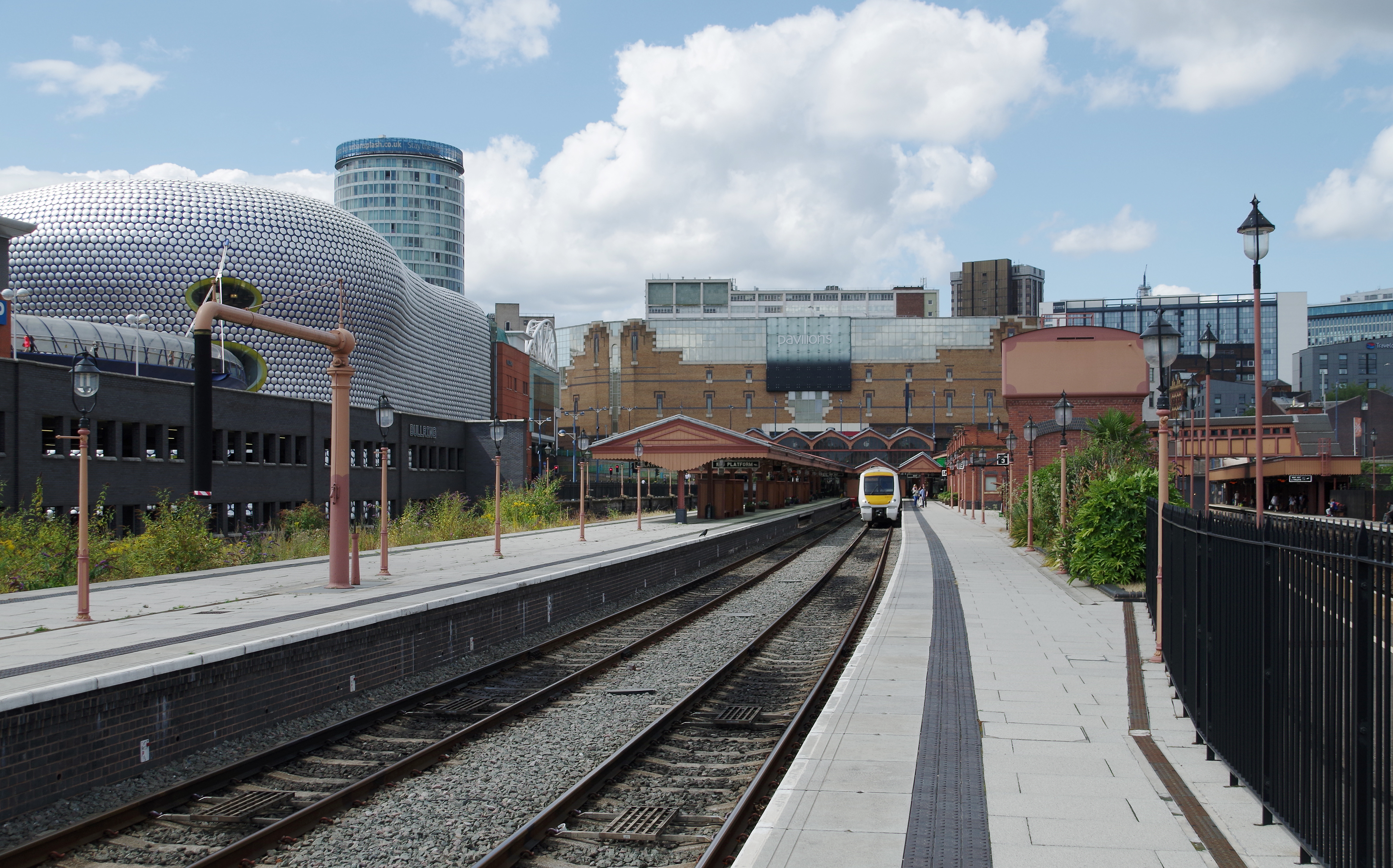 The bay platforms at Birmingham Moor Street railway station. Chiltern Railways class 168 "Clubman" DMU 168112 is visible.